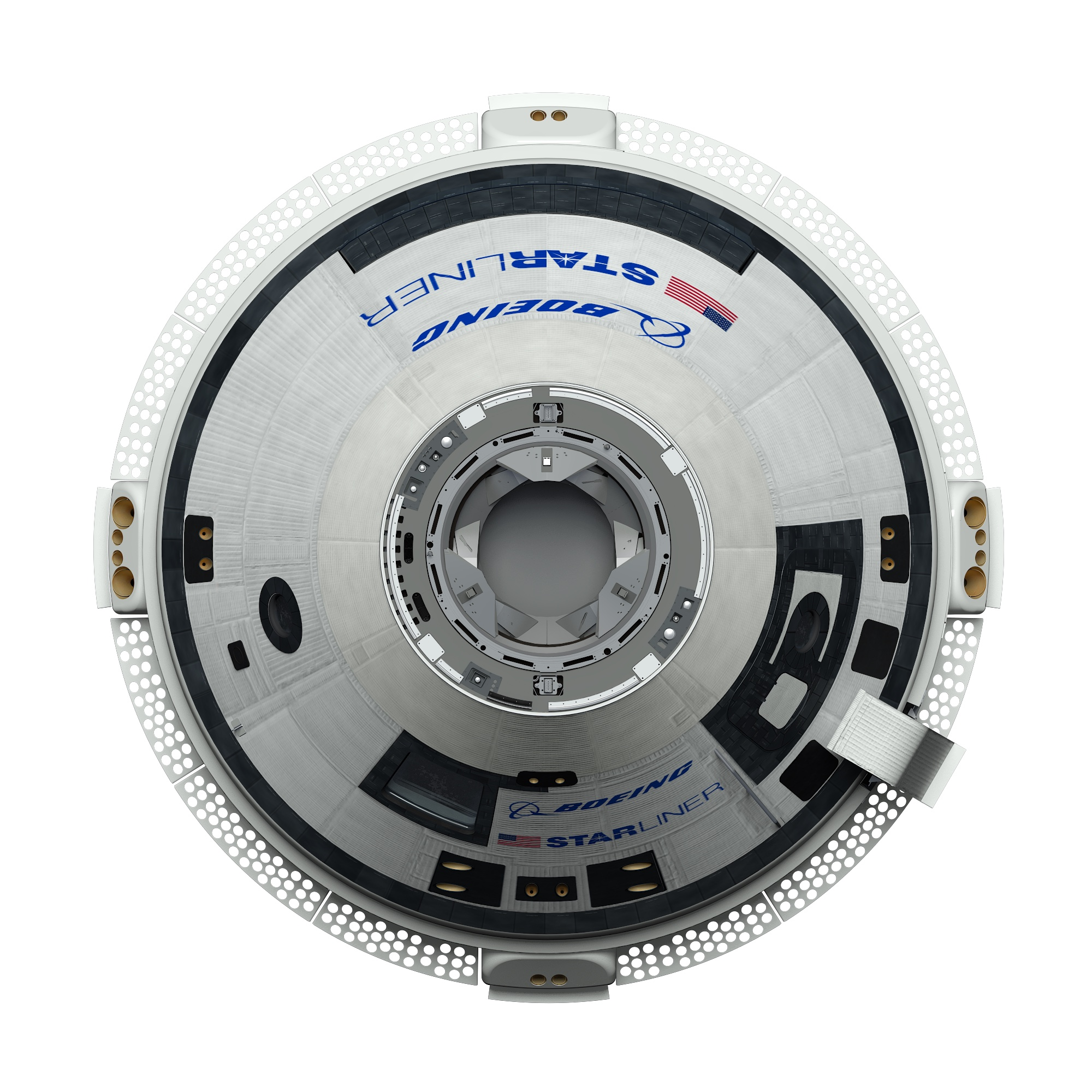 CST-100 Starliner render 3